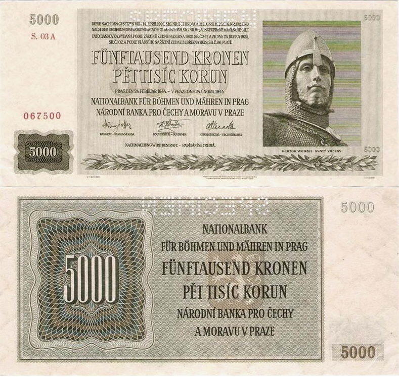 5000 Korun Note of Bohemia and Moravia